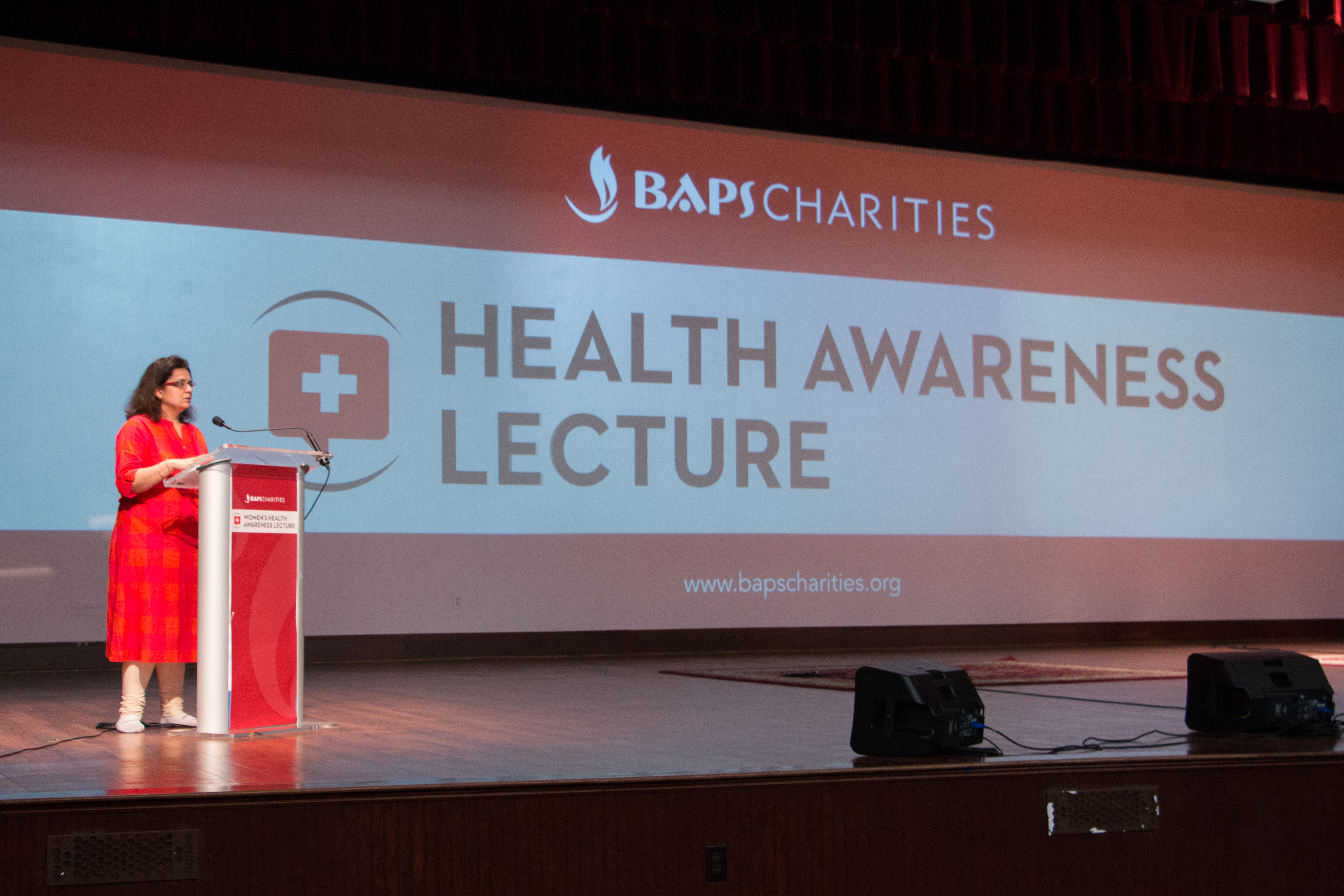 BAPS Charities Hypertension Lecture